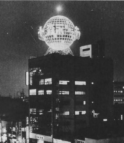 Morinaga neon of Ginza tower once was. Completed in about 1953.